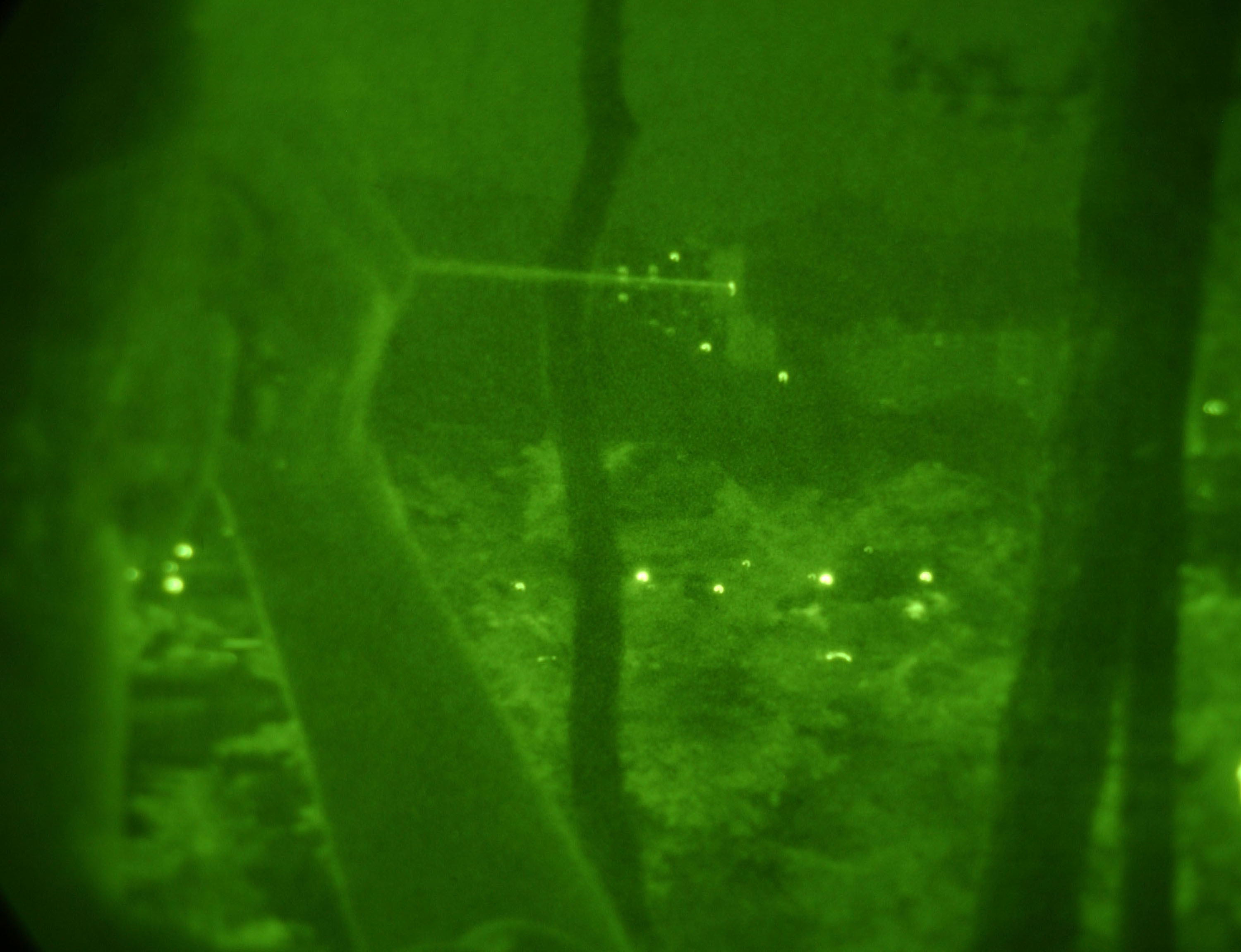 JEONJU, Republic of Korea -- A tactical air controller, commonly known as a "TAC-P," aims a laser target designator on a simulated target July 12 southeast of this city. The laser beam is only detectable by night vision, and aids pilots by illuminating a target without the enemy knowing. The night-time exercise is part of a week-long training session between TAC-Ps, joint terminal attack controllers from the 604th Air Support Operations Squadron and pilots from both the 35th and 80th Fighter Squadrons, based at Kunsan Air Base, ROK. The training runs through July 13. (U.S. Air Force photo/Senior Airman Steven R. Doty)